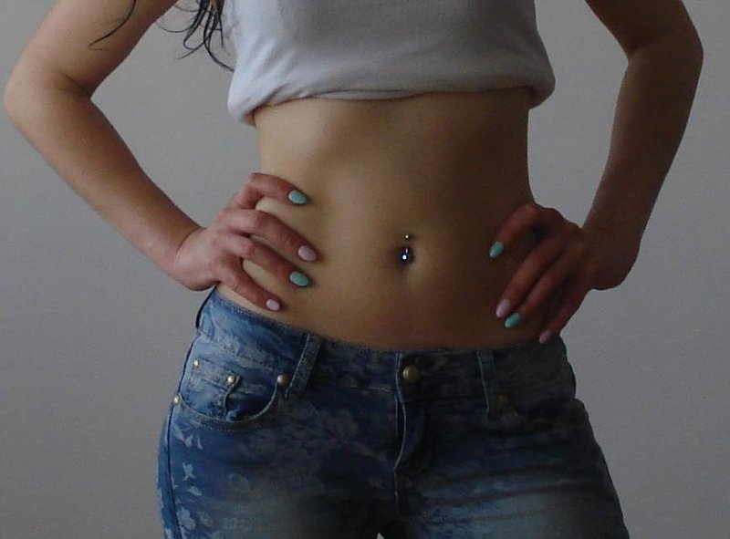 A young woman's belly